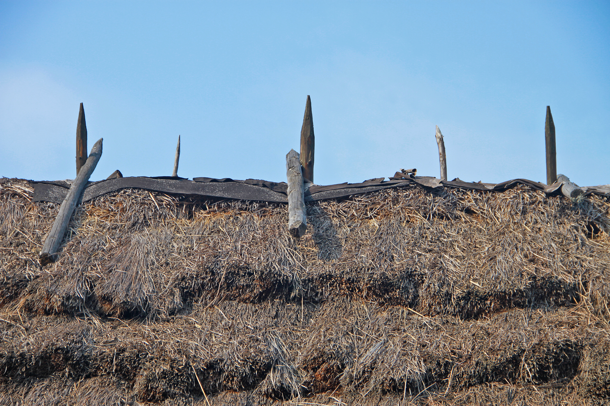 House from Medvedivtsi village, Zakarpattia region (19th century). Museum of Ukrainian Folk Architecture and Ethnography in Pyrohiv (near Kyiv, Ukraine)